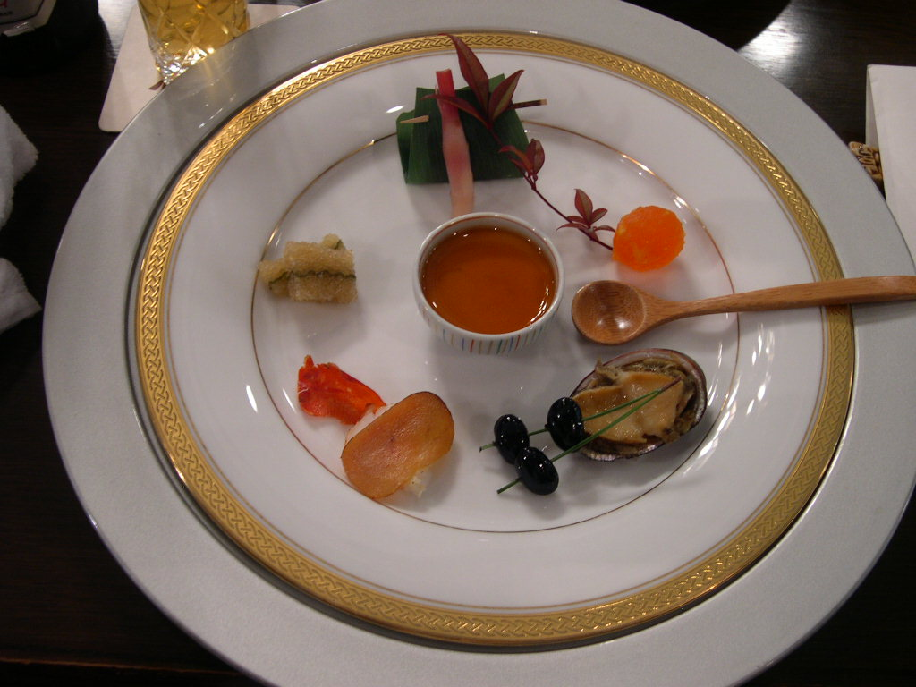 First course of a tasting menu at "Iron Chef" Rokusaburo Michiba's restaurant 'Rokusan tei' in Ginza, Tokyo. (Photo: Jan 2007)